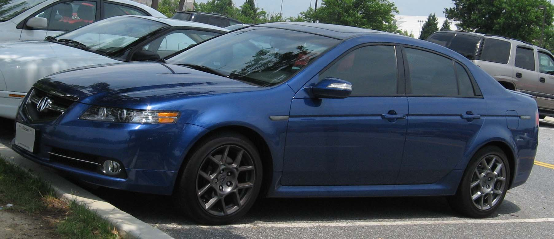 2007 Acura TL Type-S photographed in USA.